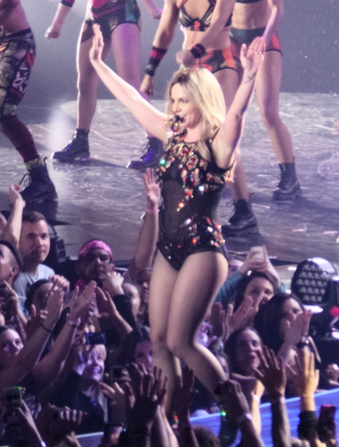 Britney Las Vegas